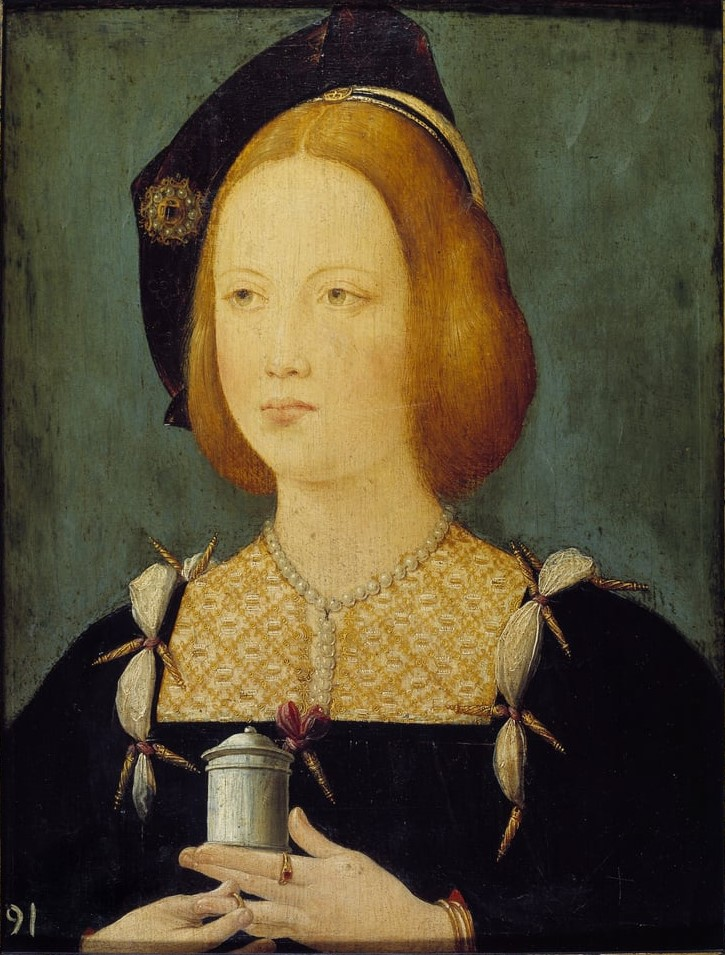 Mary Tudor, Princess of England (1496-1533), second daughter of King Henry VII. of England and Elizabeth of York, younger sister of Henry VIII of England and Queen consort of France due to her marriage to Louis XII. After his death, she married Charles Brandon, 1st Duke of Suffolk. Mary fell for Charles and all contemporary accounts remark on Mary's great beauty, particularly her clear complexion and long red-gold hair, the Tudor trademark so Charles too became smitten.